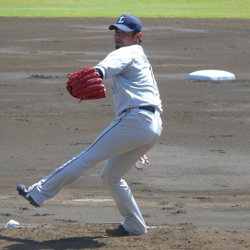 Koji Onuma, pitcher of the Saitama Seibu Lions, at Yomiuri Giants Stadium.